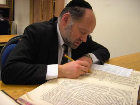 Studying the Talmud